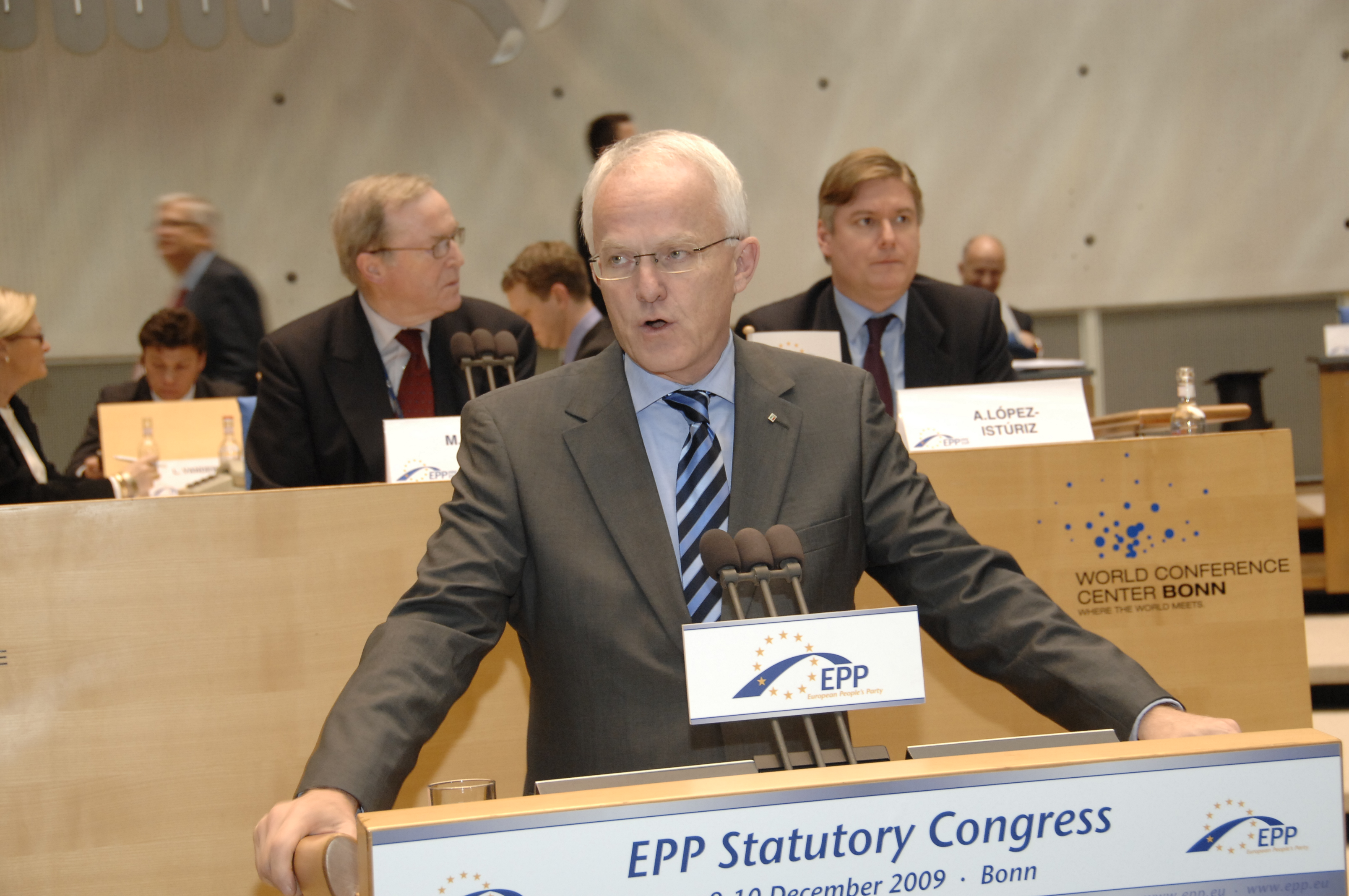 EPP Congress Bonn